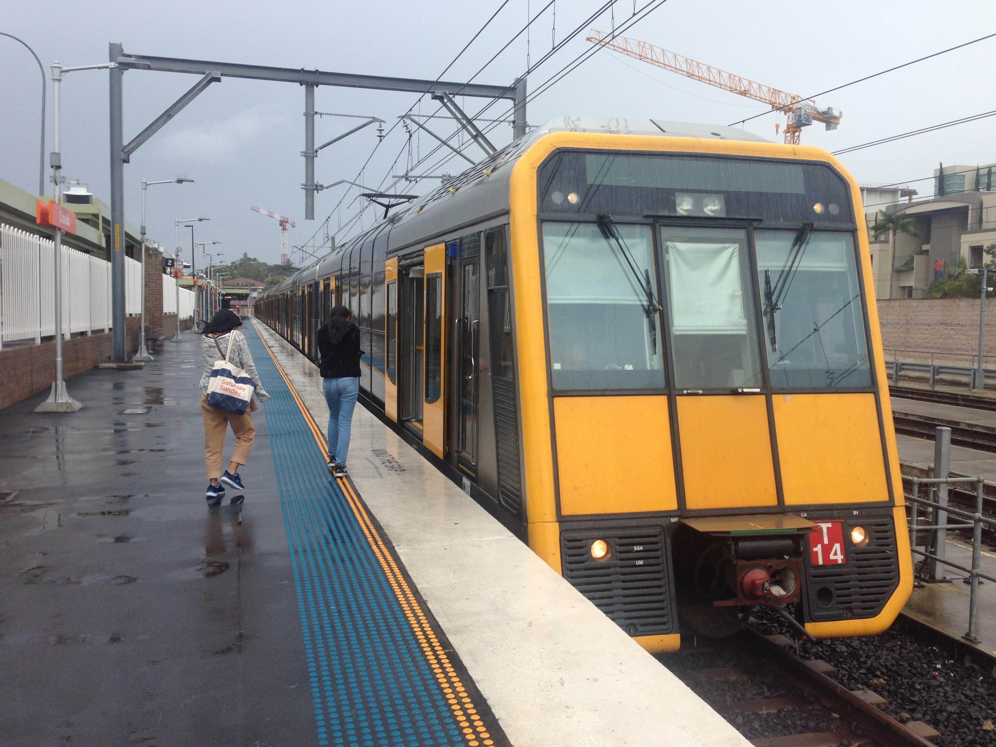 Tangara train waiting at Cronulla Station, Sydney